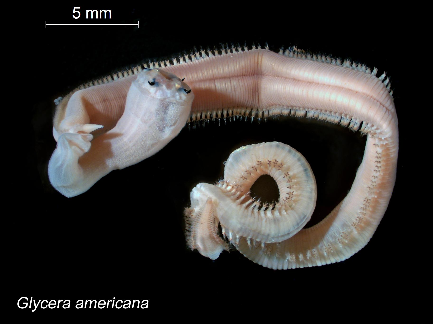 Collected from Puget Sound sediments and photographed by the Washington State Department of Ecology’s Marine Sediment Monitoring Team. For more information about this team’s work visit